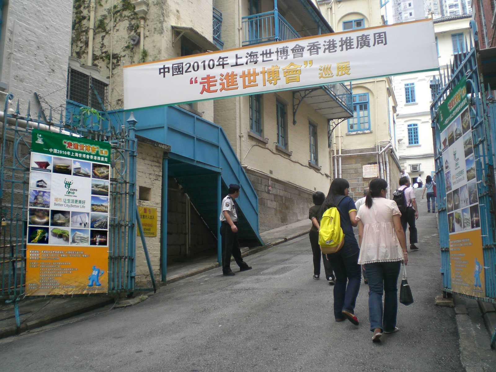 香港zh:中環荷李活道舊中區警署走進2010年上海世界博覽會推廣周